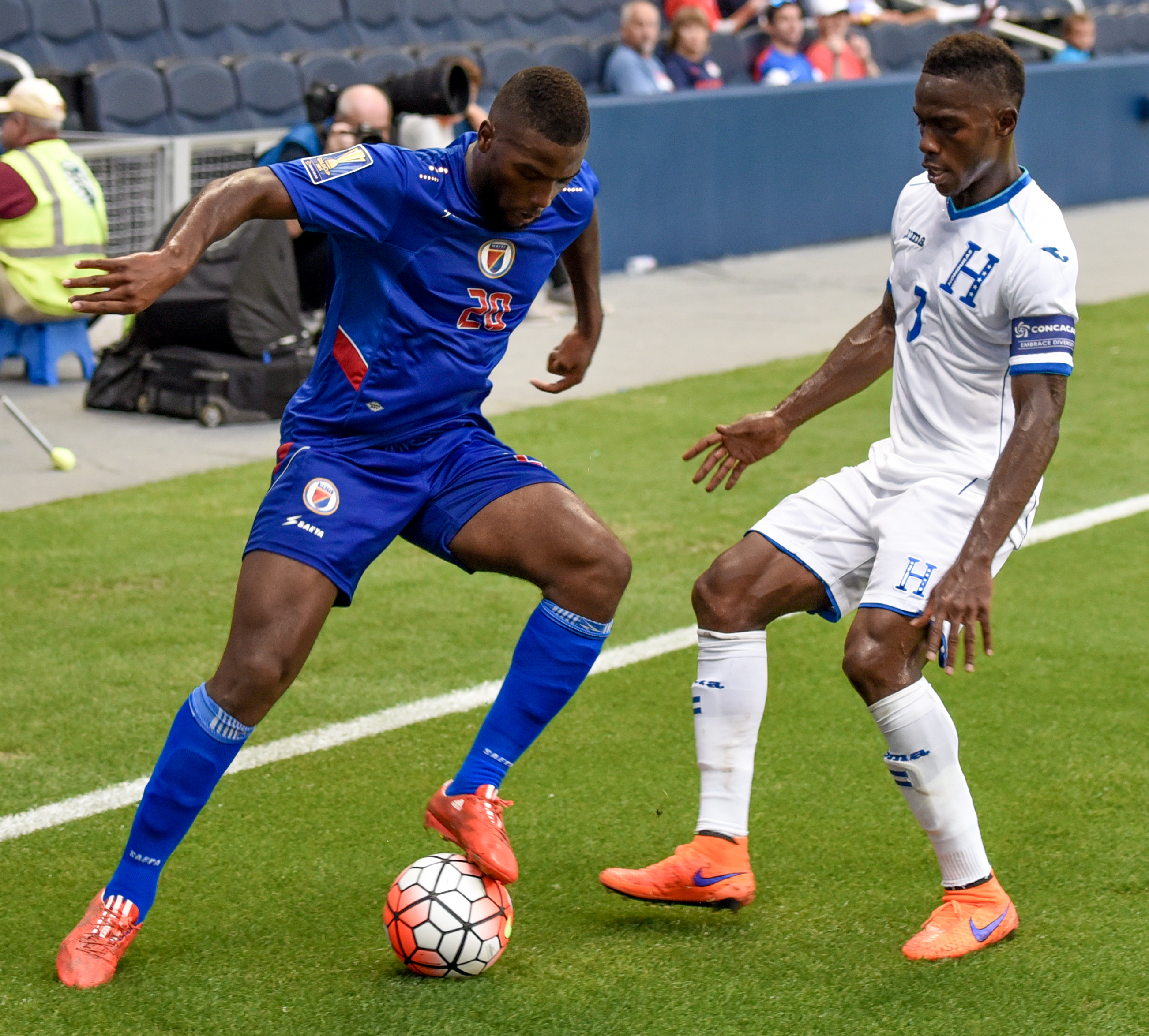 Duckens Nazon of the Haiti working the ball out of the corner against Honduras Maynor Figueroa.